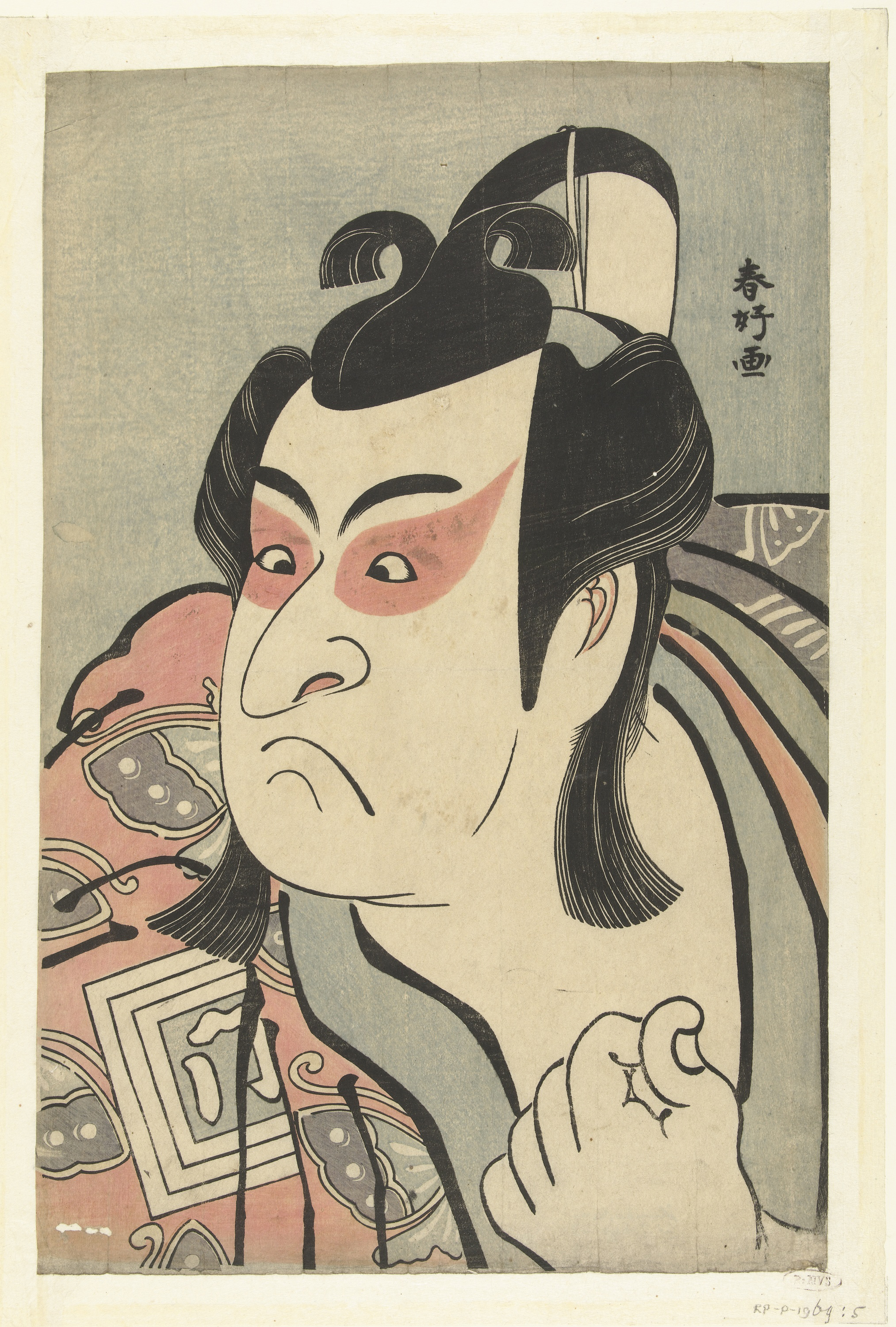 Color woodcut; line block in black with color blocks